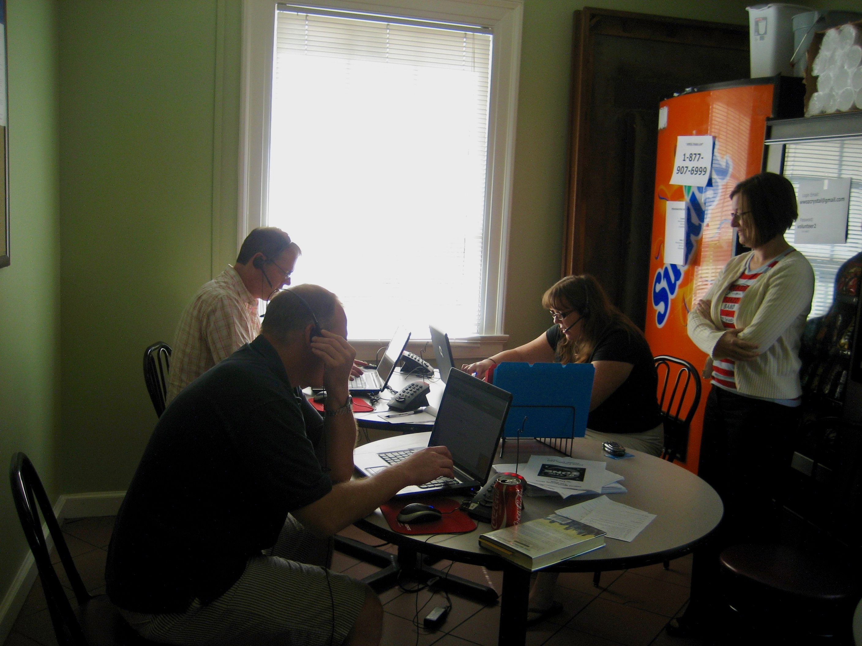 Radio station WWOZ, New Orleans, in French Market Office Building (Red Stores Building). Break room temporarily made into phone answering center during fall pledge drive.